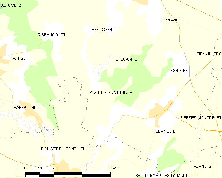 Map of French municipality Lanches-Saint-Hilaire